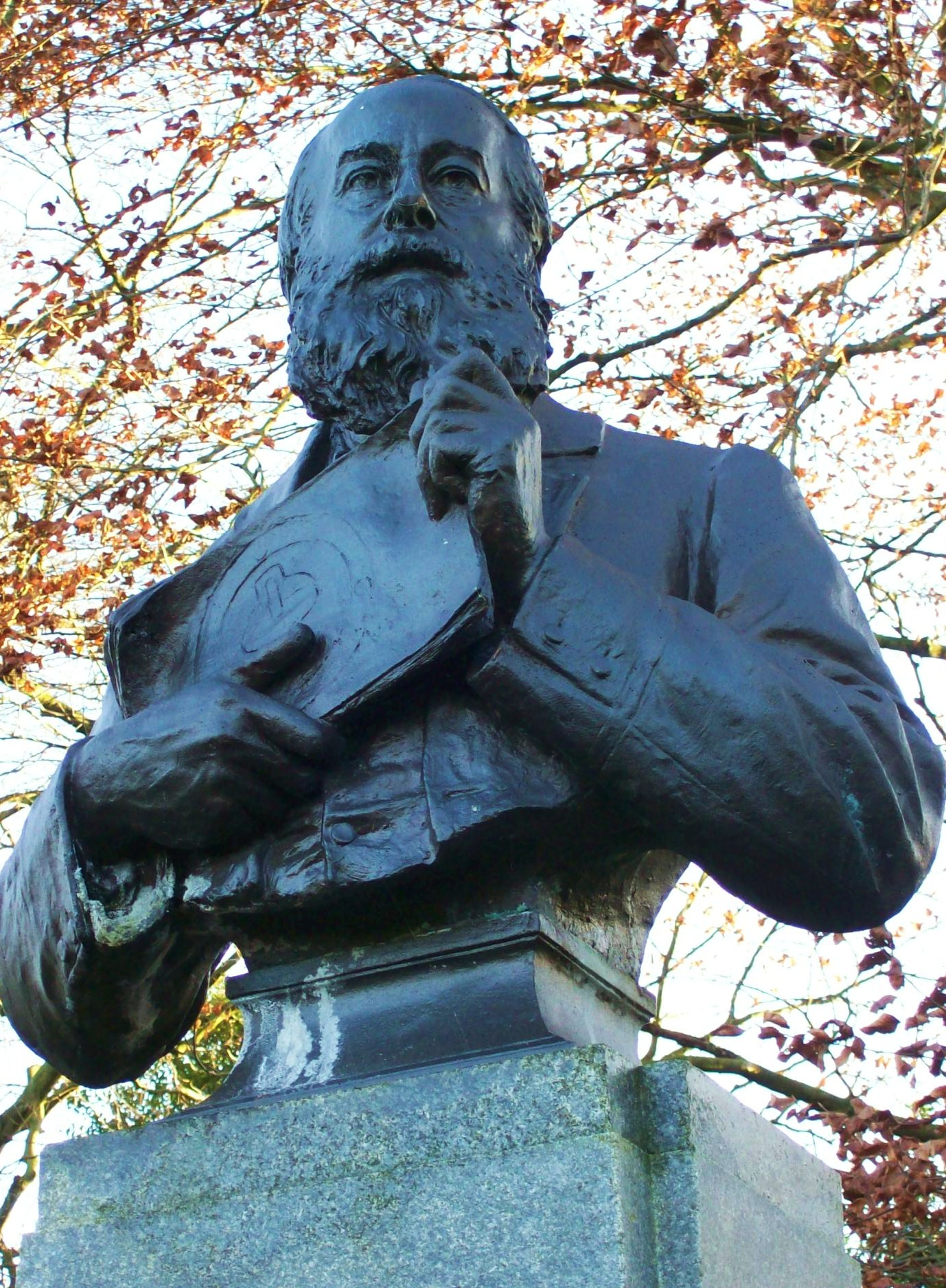 Bust of J.P. Joule in Worthington Park, Sale